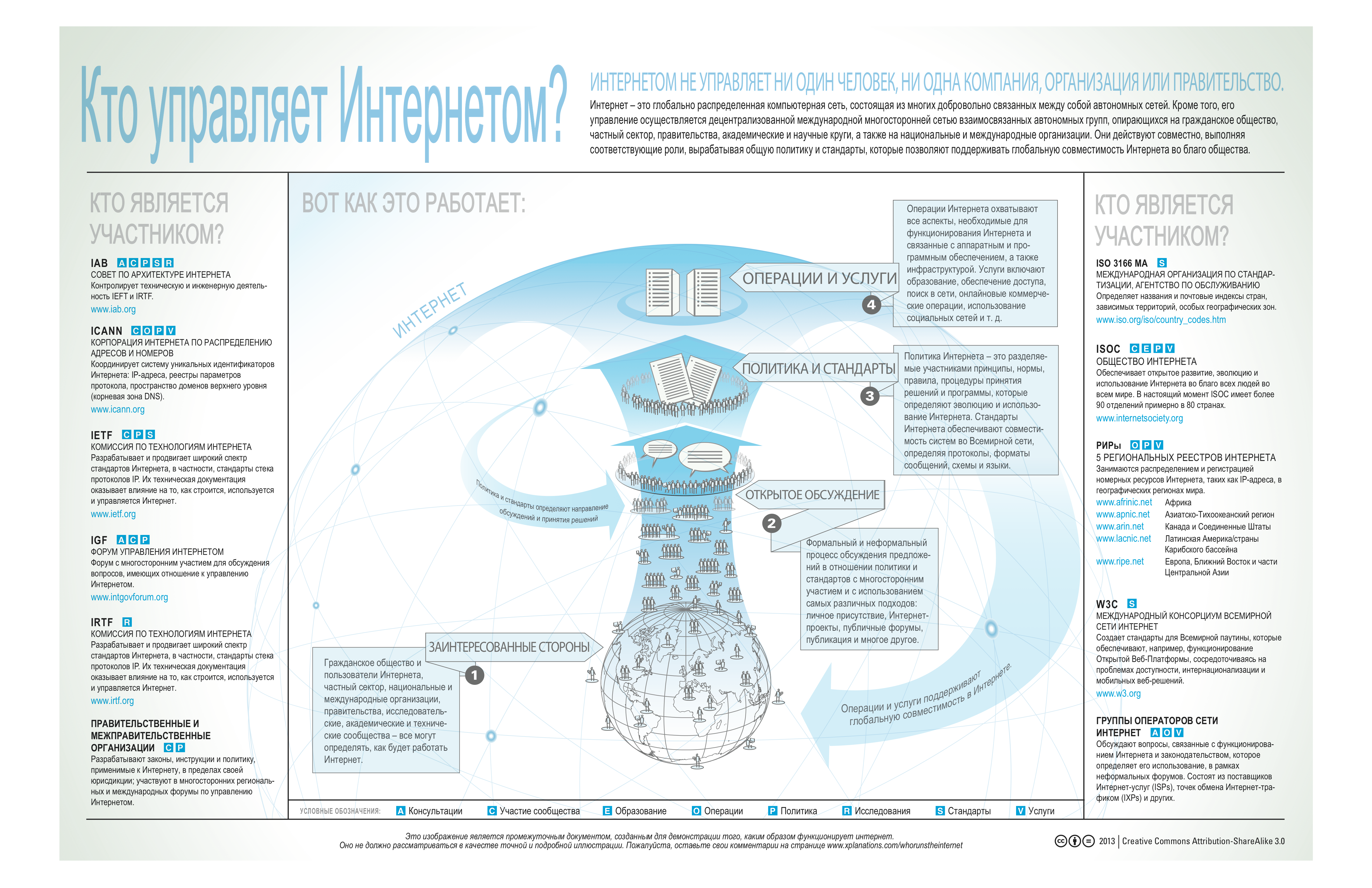 Who Runs the Internet? This graphic is a living document, designed to provide a high level view of how the Internet is run.